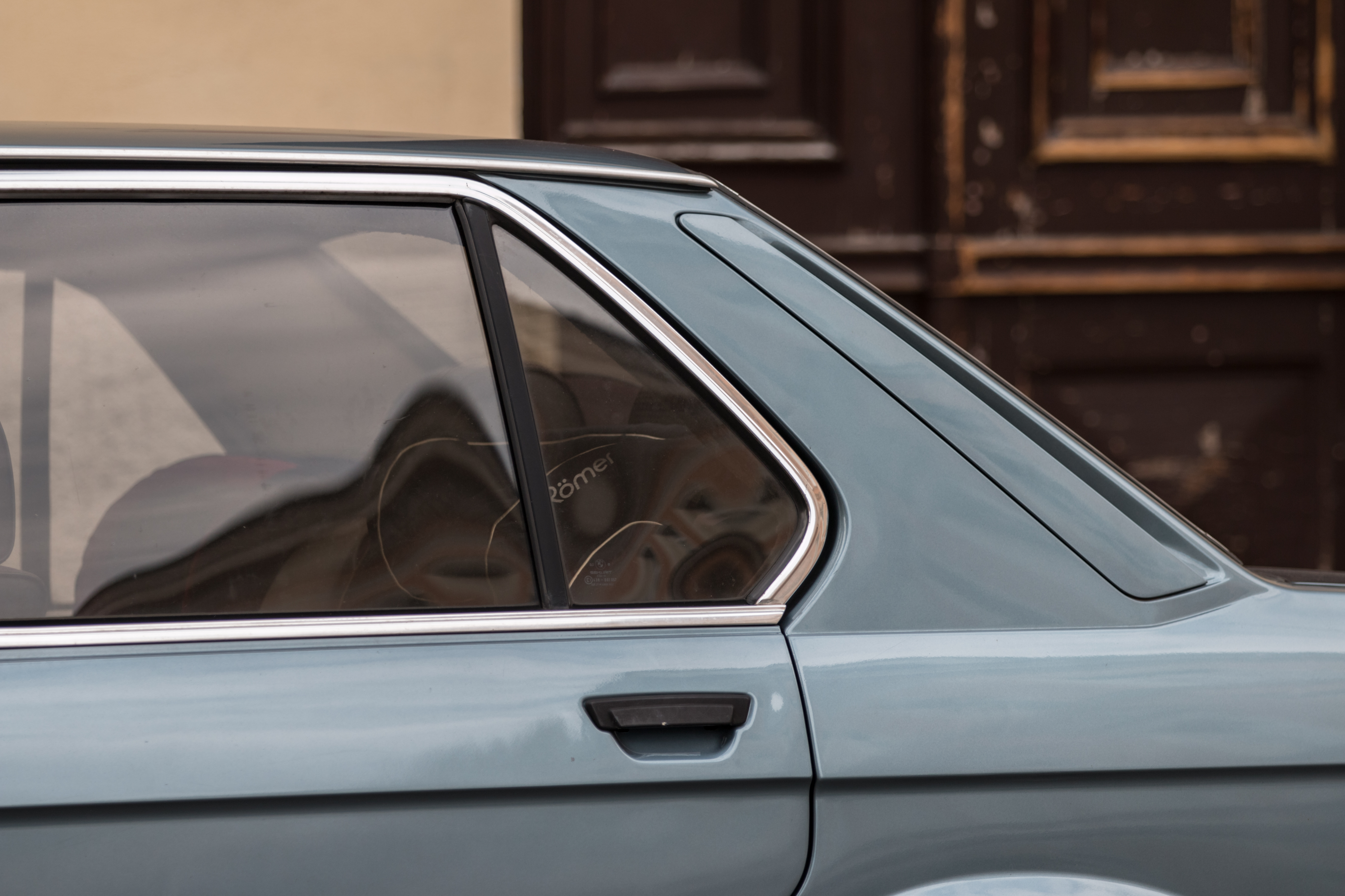 BMW E28 520i